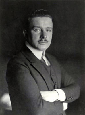 Portrait of Joseph Maria Olbrich Retouched and downsized picture found on Post-Processing: fade correction, noise reduction and contrast enhancement